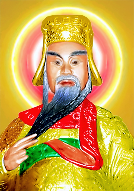 Nguyễn chi cuong